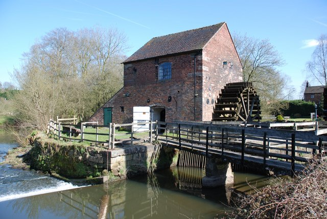 Cheddleton Flint Mill The Mill where the flint was ground to make china.